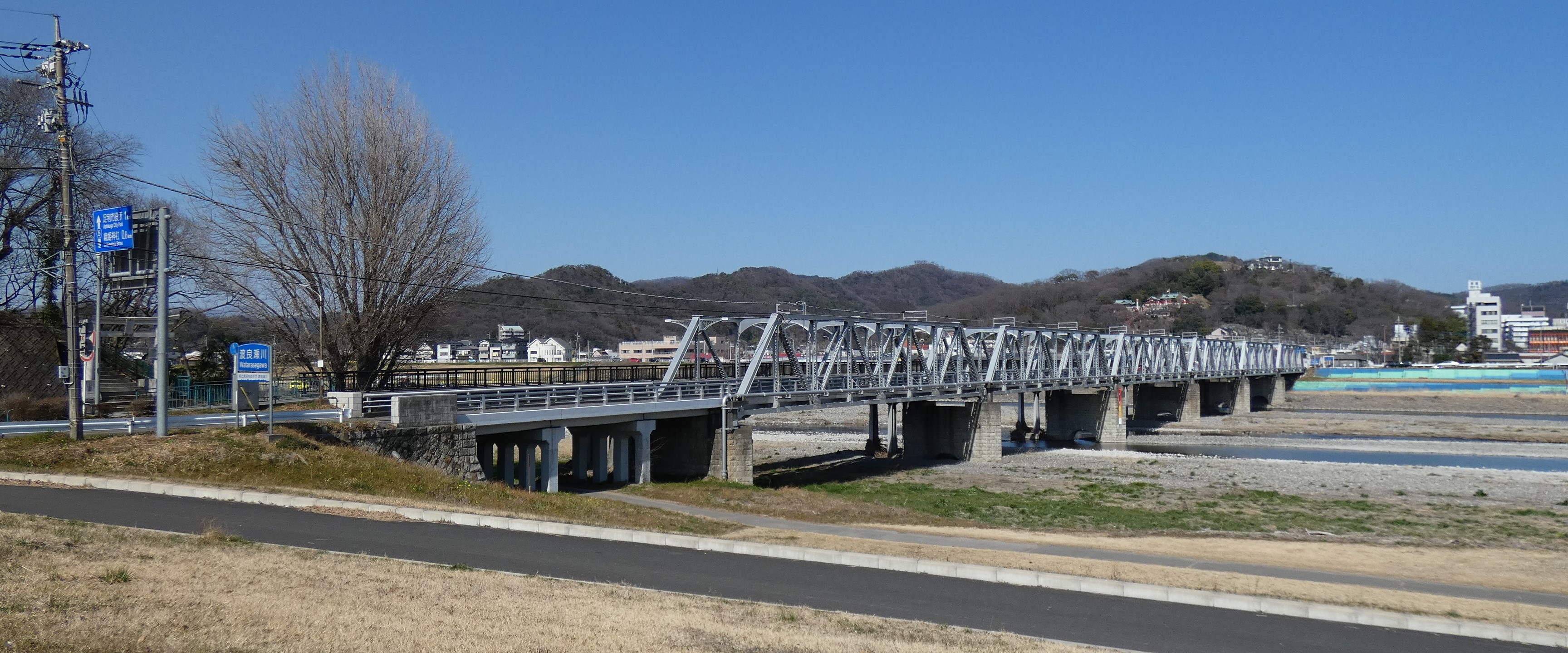 Watarase Bridge (Ashikaga, Japan) east side